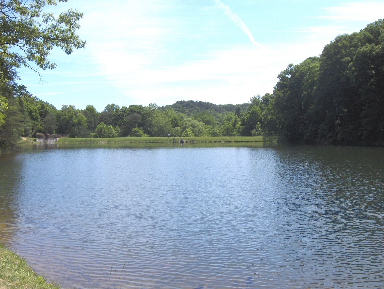 Jefferson Memorial Forest, Tom Wallace lake, near Louisville, Kentucky. Photograph by John Knouse, May, 2005.